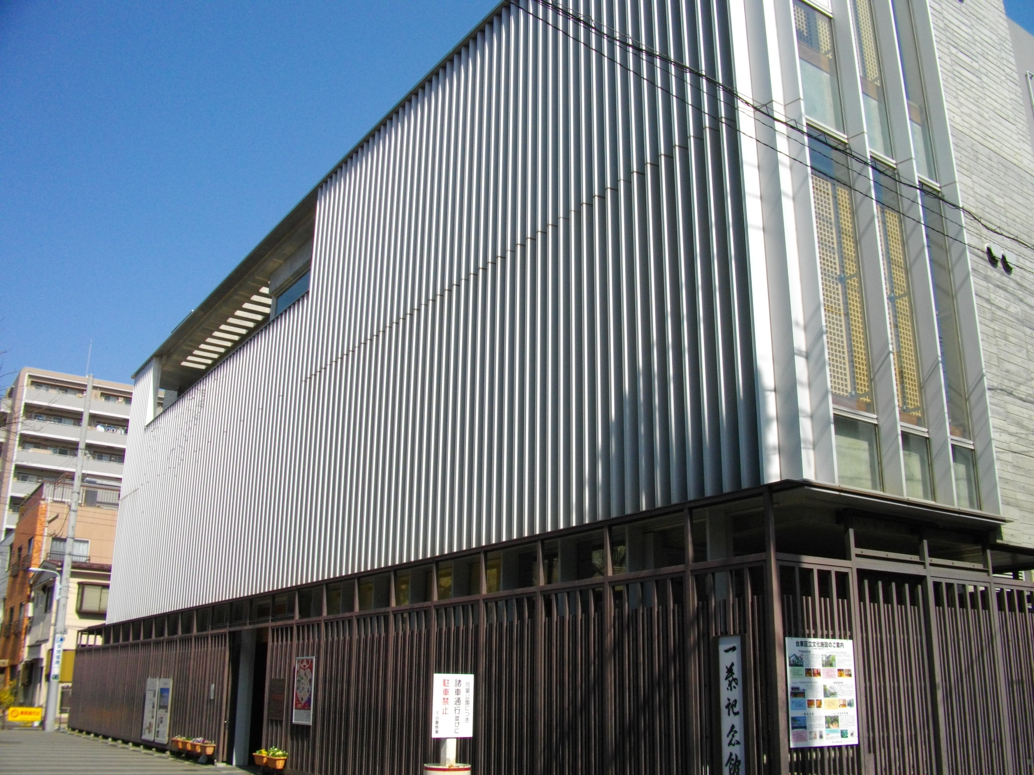 Ichiyo Memorial Museum